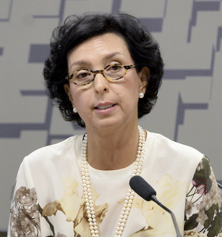 Brazilian Ambassador. Permanent Representative of Brazil to the United Nations Office and other international organizations in Geneva.